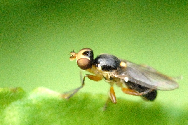 Picture taken in Commanster, Belgian High Ardennes . Species: possibly Cetema cereris Comment: The aristae of C. cerereris must be white ( So Cetema sp. would be a better description.